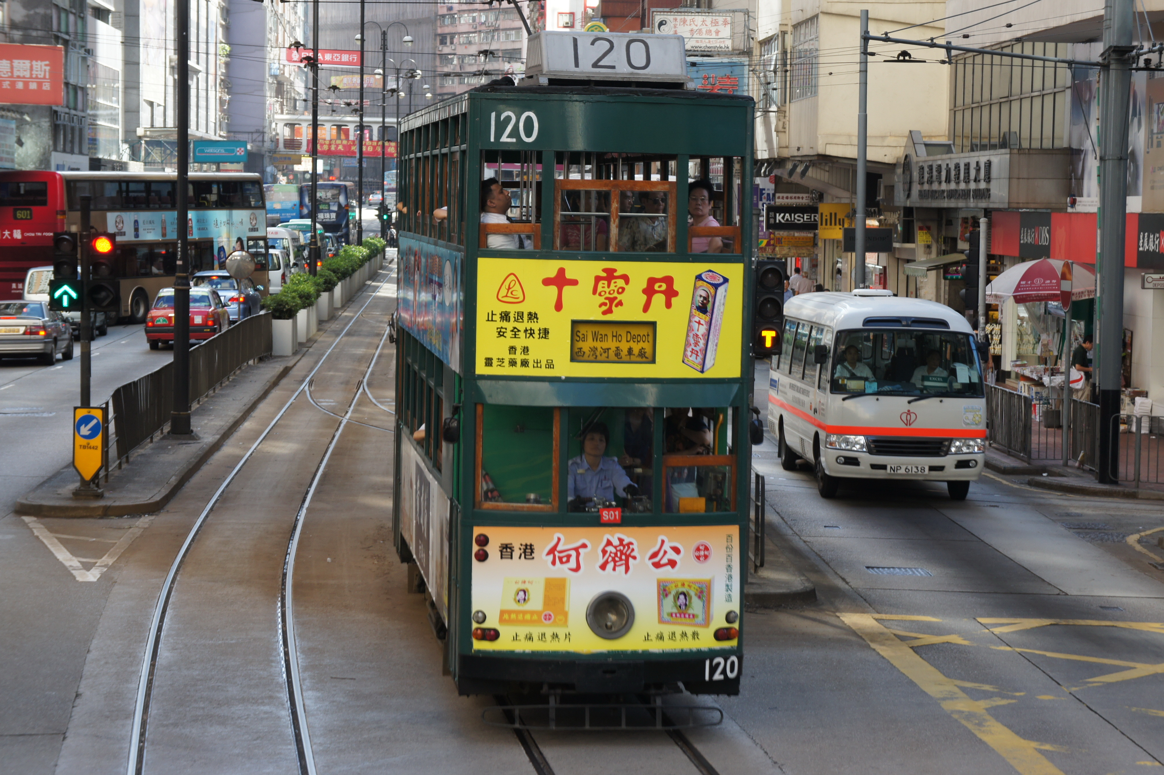 King's Road near Tong Shui Road, North Point, Hong Kong. A #120 1950s' style tram was heading towards Sai Wan Ho Depot.